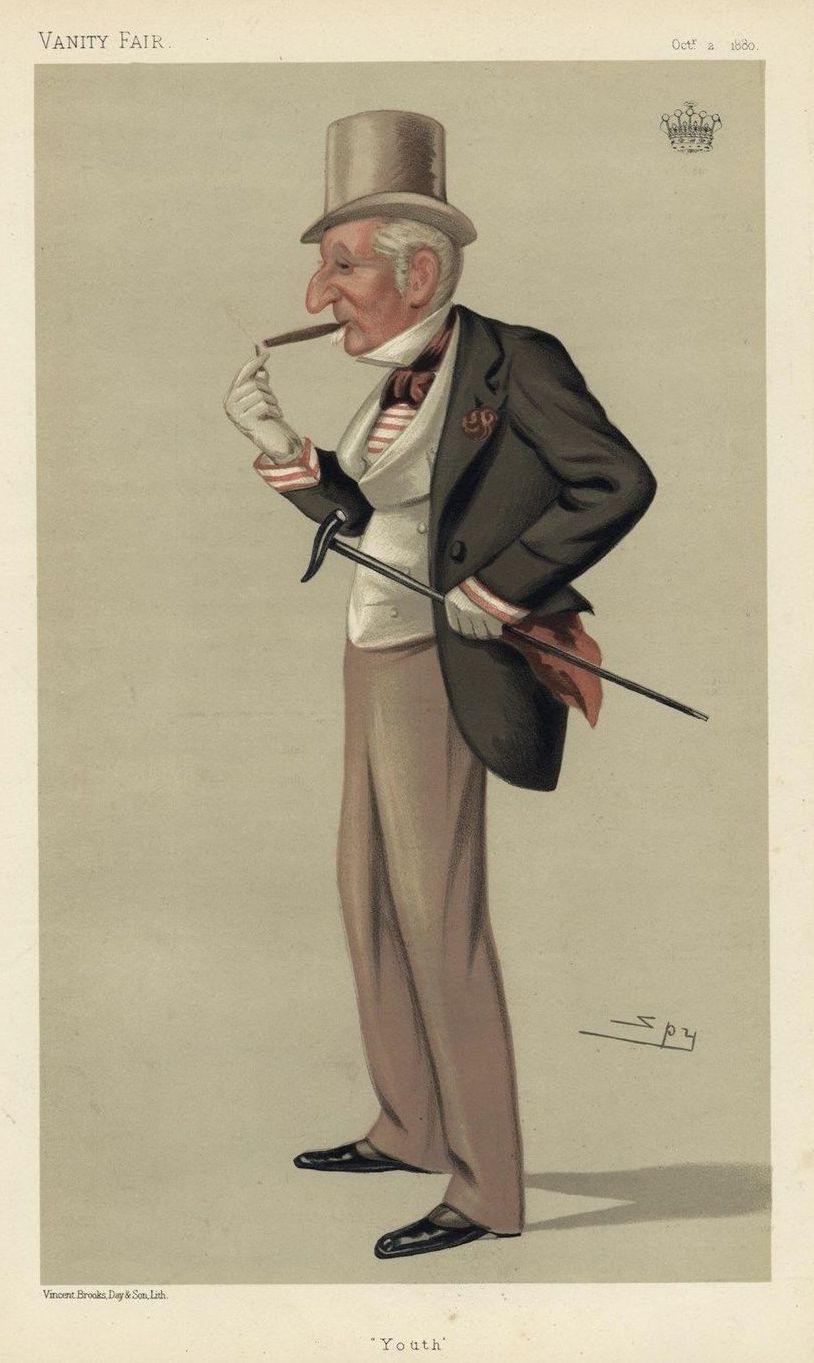 Caricature of George Finch-Hatton, 11th Earl of Winchilsea. Caption read "Youth".